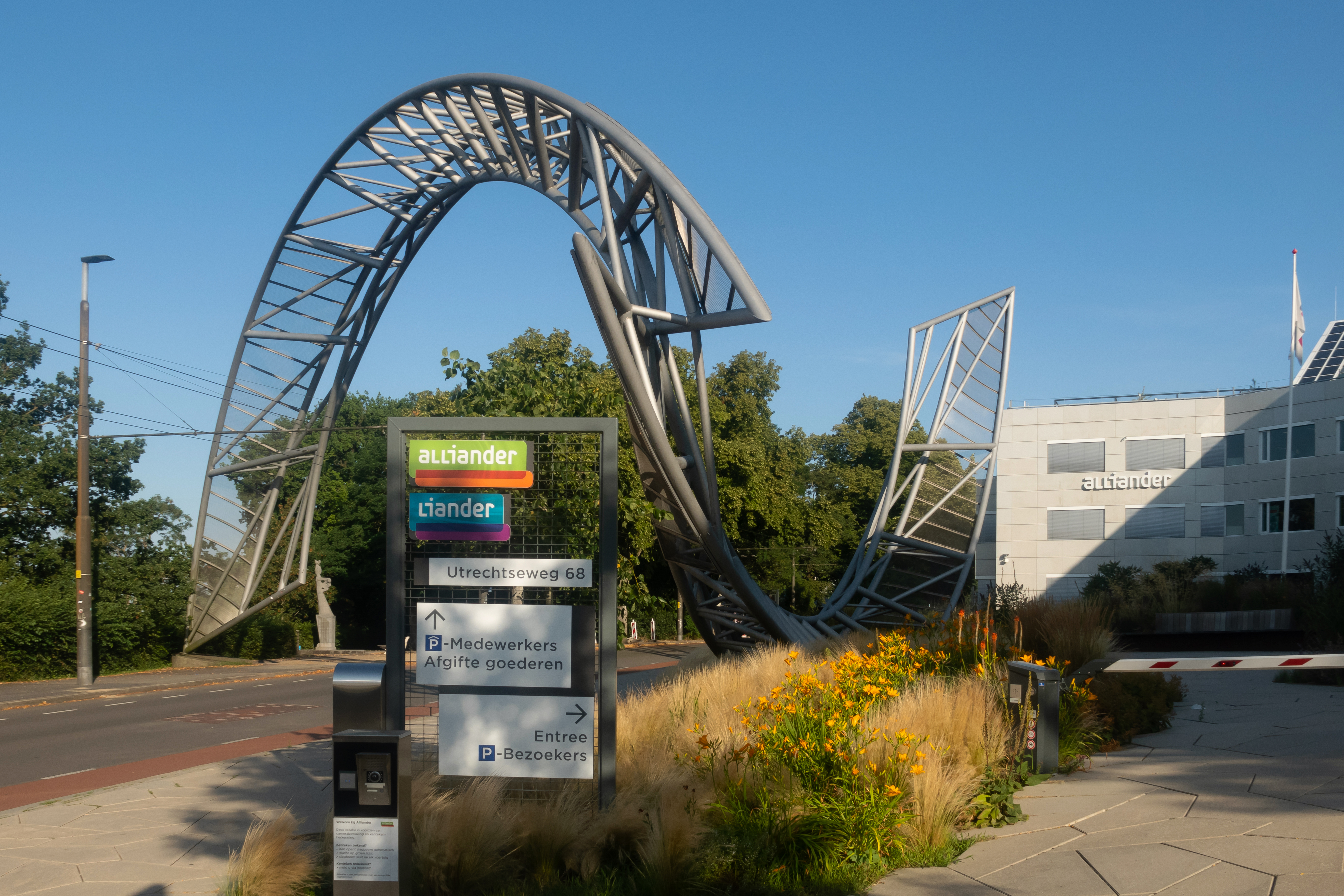 Arnhem, sculpture near Liander office building